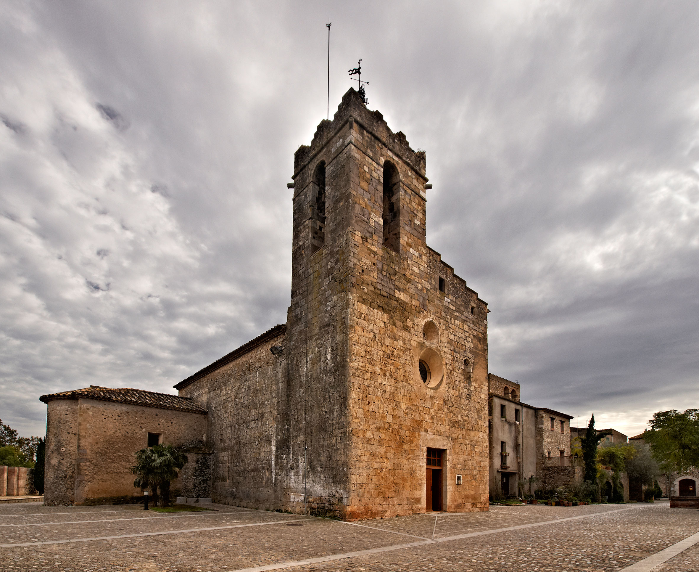 Sant Iscle i Santa Victòria church of Bàscara, Catalonia, Spain